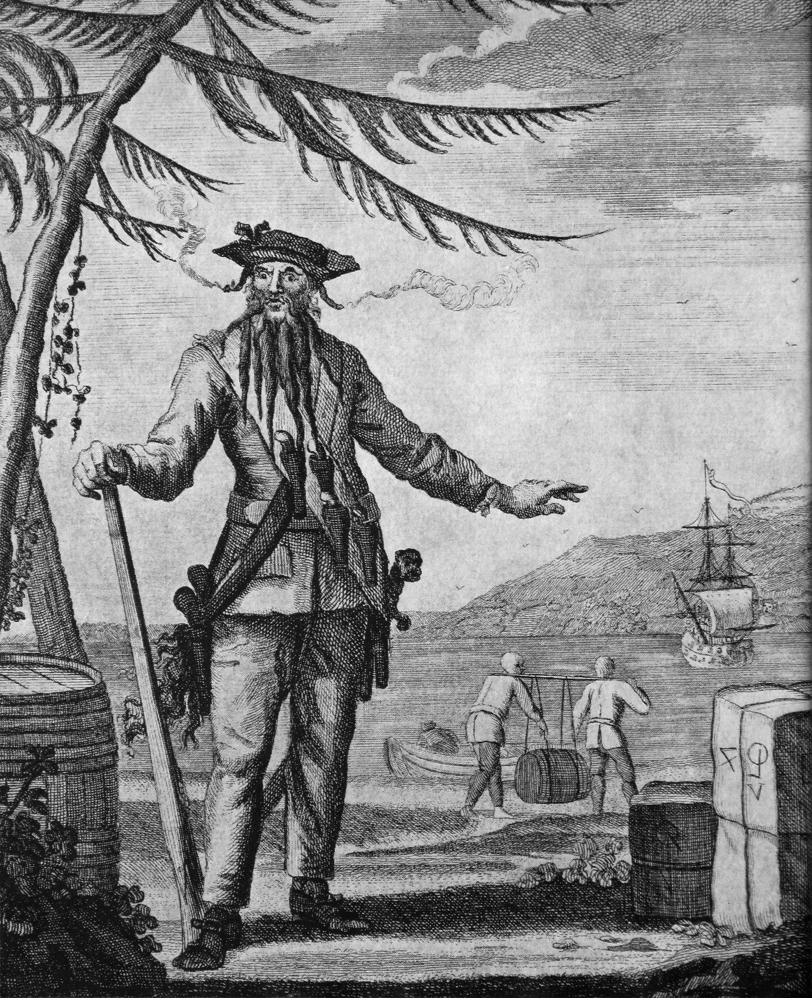 Blackbeard the Pirate: this was published in Defoe, Daniel; Johnson, Charles (1736) "Capt. Teach alias Black-Beard" in A General History of the Lives and Adventures of the Most Famous Highwaymen, Murderers, Street-Robbers, &c. to which is added, a genuine account of the voyages and plunders of the most notorious pyrates. Interspersed with several diverting tales, and pleasant songs. And adorned with the Heads of the most remarkable Villains, curiously engraven on Copper, London: Oliver Payne, pp. plate facing p. 86